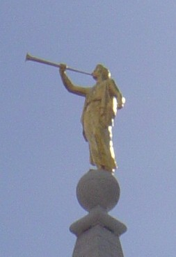 The Angel Moroni by Cyrus Edwin Dallin on the top of the Salt Lake Temple